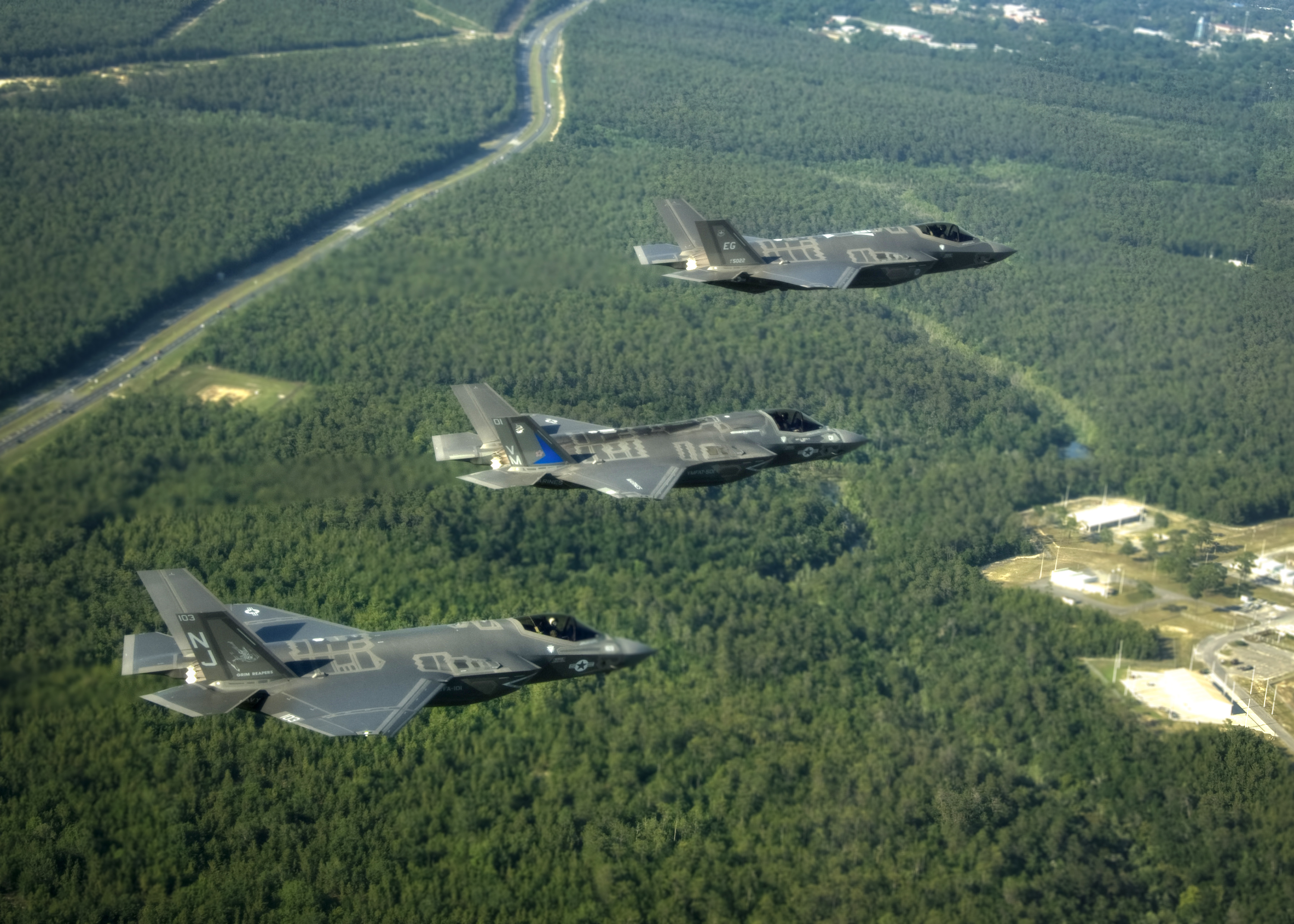 A U.S. Navy Lockheed Martin F-35C Lightning II of Strike Fighter Squadron 101 (VFA-101), a U.S. Marine Corps F-35B of Marine Fighter Attack Training Squadron 501 (VMFAT-501), and a U.S. Air Force F-35A of the 58th Fighter Squadron participate in a training sortie together on 21 May 2014, near Eglin Air Force Base, Florida (USA). All three variants are hosted at Eglin by the USAF 33rd Fighter Wing. The wing’s F-35 Integrated Training Center at Eglin surpassed 5,000 combined training sorties on 28 May, contributing more than a third of all sorties in the U.S. Department of Defense’s F-35 program.